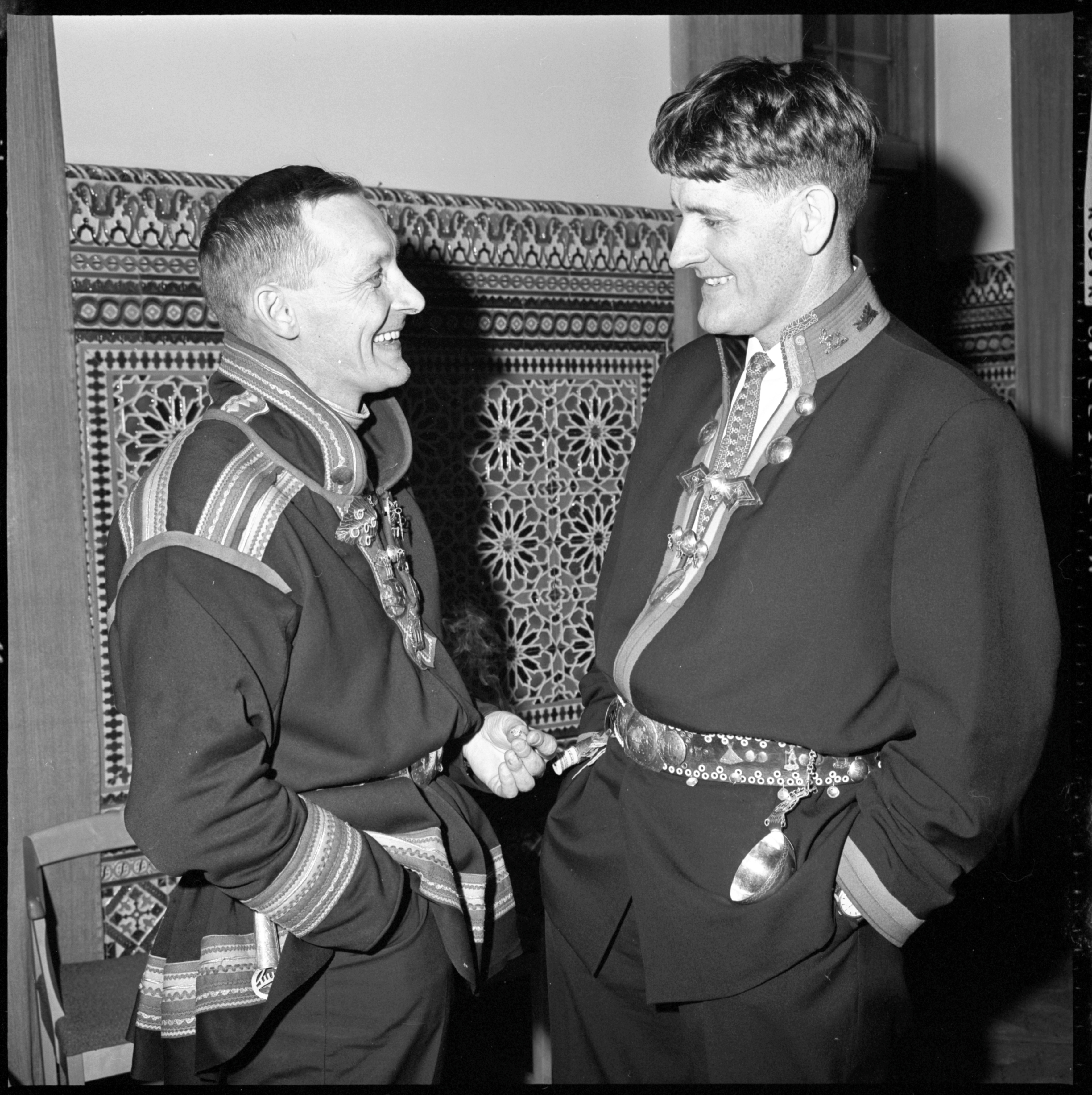 The Swedish singer Jokkmokks-Jokke (Bengt Johansson) (to the right)